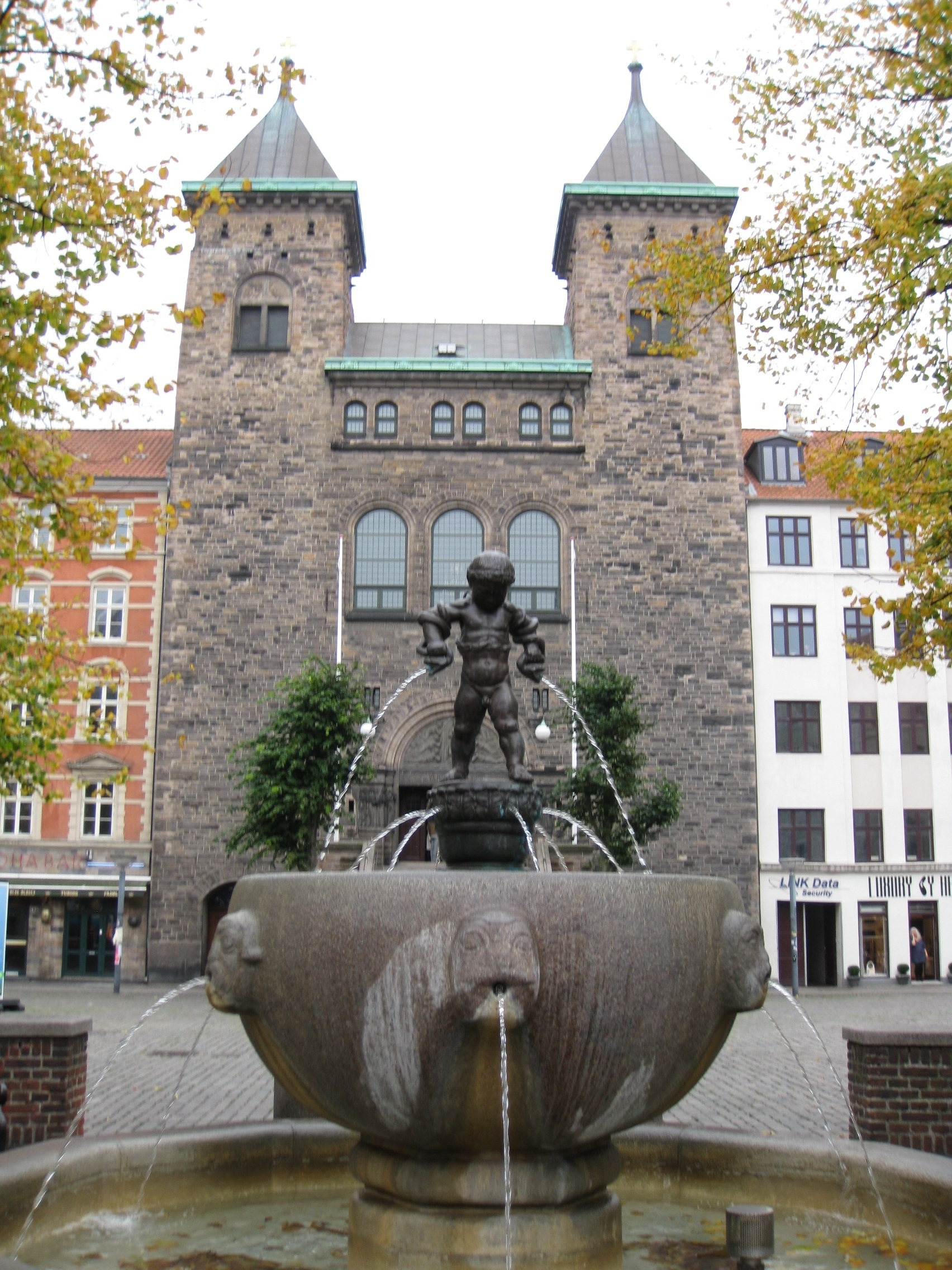 The Hercules Gountain at the church at Vesterbros Torv in the Vesterbro district of Copenhagen, Denmark